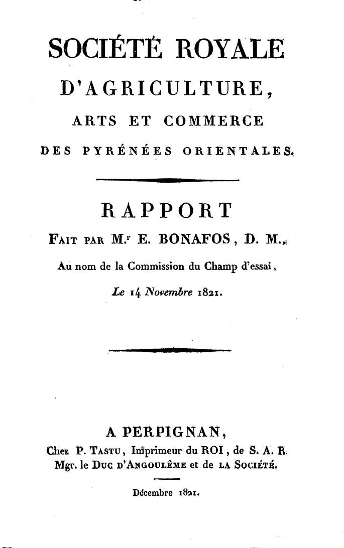 Book cover for the Rapport that Emmanuel Bonafos made for the Société Royale d'Agriculture, arts et commerces des Pyrénées Orientales (Perpignan: P. Tastu, 1821)